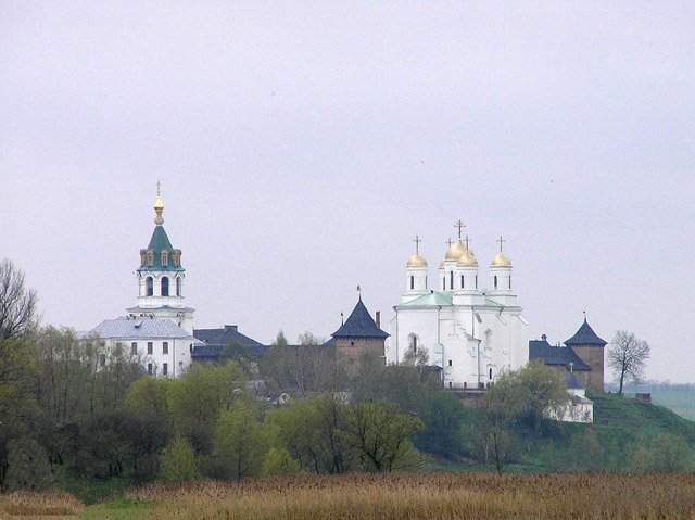 General view of the Zymne Monastery.